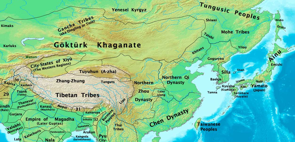 China and the surrounding area in 565 AD.